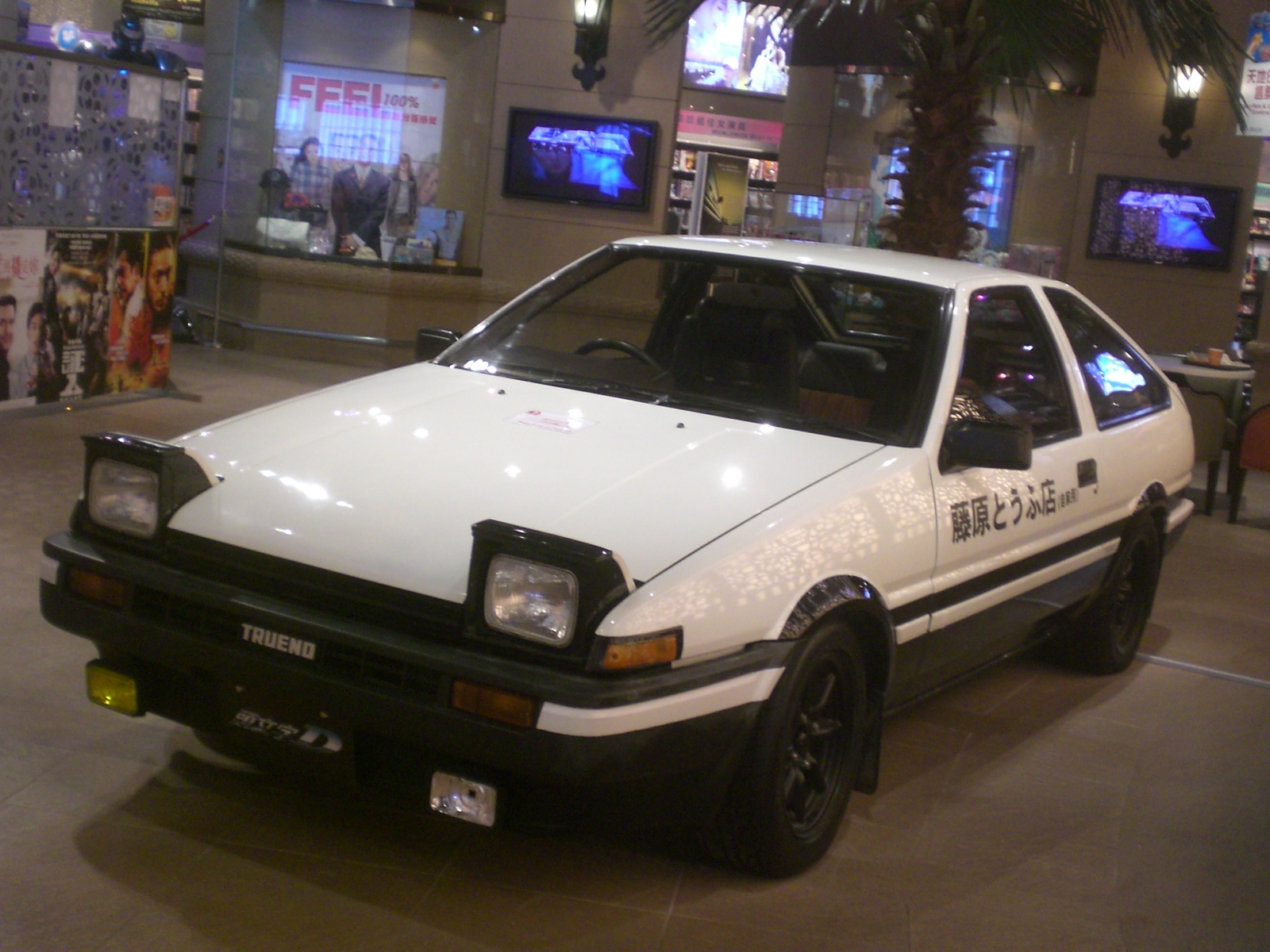 頭文字D